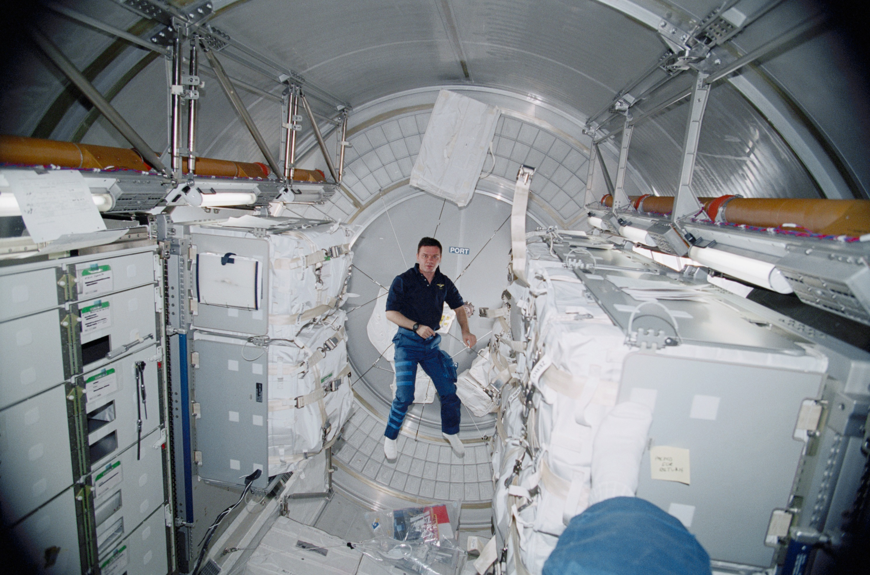 "Cosmonaut Yuri P. Gidzenko is dwarfed by transient hardware aboard Leonardo, the Italian Space Agency-built Multipurpose Logistics Module (MPLM). Gidzenko has been aboard the International Space Station (ISS) since early November of 2000, but he will be returning to Earth with the STS-102 astronauts and the MPLM in a few days."[1]